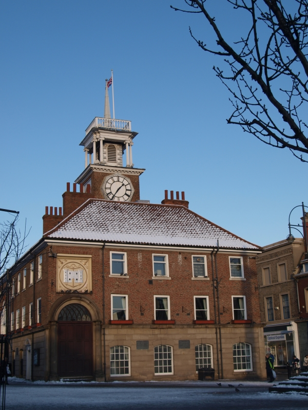 Town House